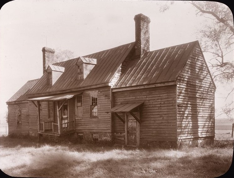 Title [North Wales, Caroline County, Virginia. Service building] Contributor Names Johnston, Frances Benjamin, 1864-1952, photographer Created / Published [1935] Subject Headings - Houses--Virginia--Caroline County--1930-1940 - Porches--Virginia--Caroline County--1930-1940 - Dormers--Virginia--Caroline County--1930-1940 Format Headings Lantern slides--1930-1940. Notes - Site History. Wooden house with tin roof. Original owner of this 18th century planatation was John Carter. - On slide (handwritten): "North Wales, Caroline." - Slide for lecturing on "Tales Old Houses Tell." - Title and date based on same image in the Carnegie Survey of the Architecture of the South, LC-J7-VA-1464, with additional information from Sam Watters, 2011. - Forms part of: Garden and historic house lecture series in the Frances Benjamin Johnston Collection (Library of Congress). - Formerly in Box 27. Medium 1 photograph : glass lantern slide, sepia-toned ; 3.25 x 4 in. Call Number/Physical Location LC-J717-X106- 5 [P&P] Repository Library of Congress Prints and Photographs Division Washington, D.C. 20540 USA Digital Id ppmsca 16575 //hdl.loc.gov/loc.pnp/ppmsca.16575 Library of Congress Control Number 2008675875 Reproduction Number LC-DIG-ppmsca-16575 (digital file from original item) Rights Advisory No known restrictions on publication. Online Format image Description 1 photograph : glass lantern slide, sepia-toned ; 3.25 x 4 in. LCCN Permalink